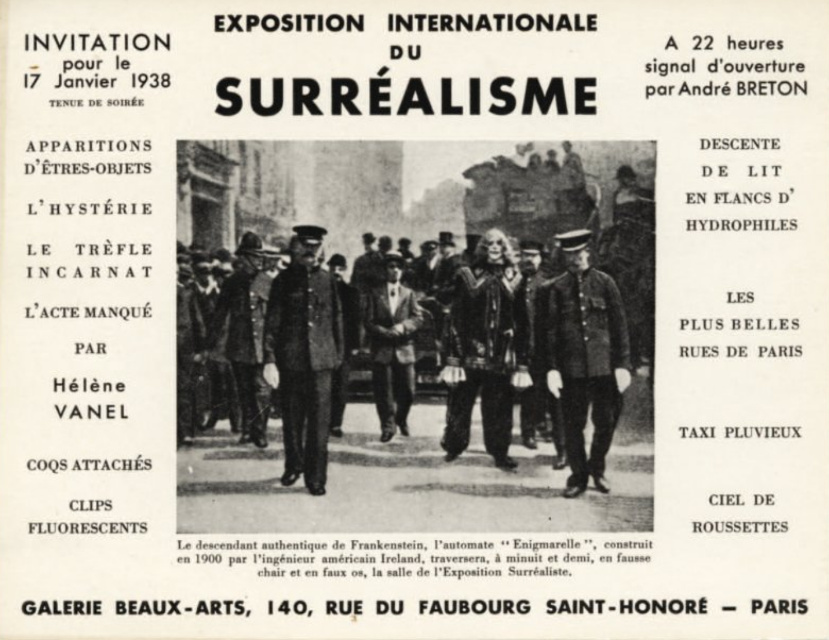 Invitation card for the "exposition internationale du surréalisme" exhibition in Pars (january 17th, 1938)